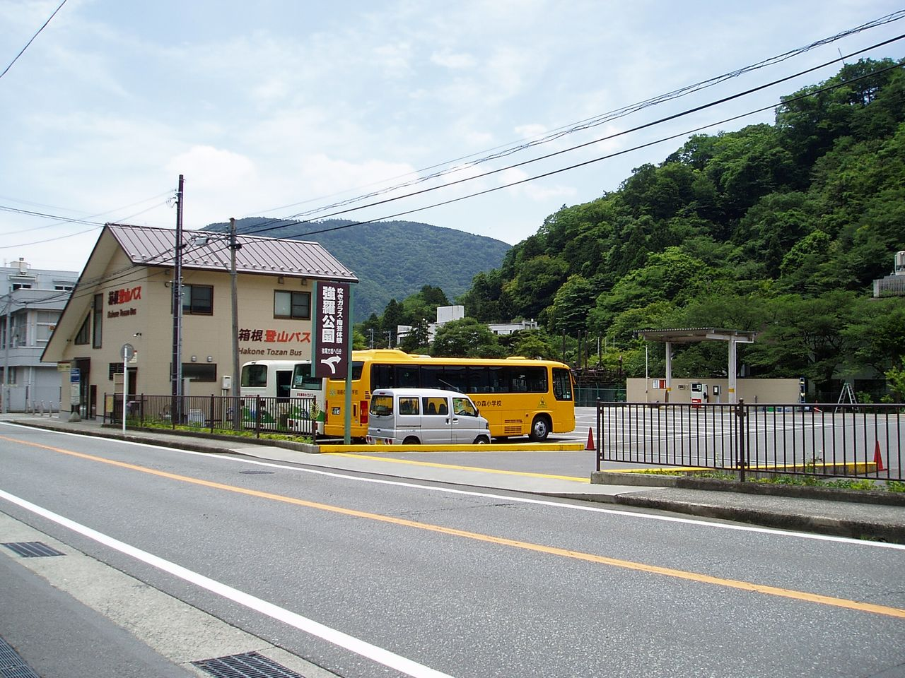 Hakone Tozan Bus Miyagino Office